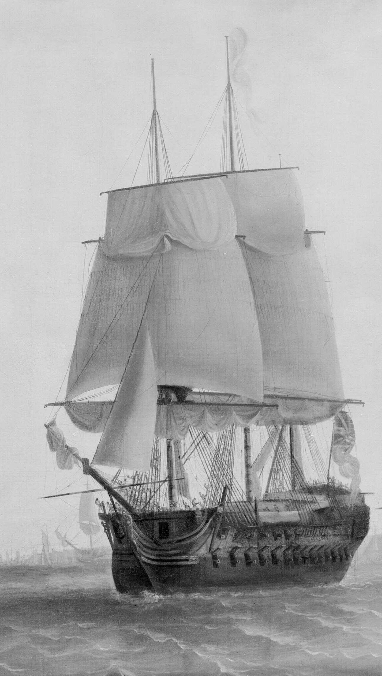 George III in HMS Southampton reviewing the fleet off Plymouth, 18 August 1789 'George III in HMS Southampton reviewing the fleet off Plymouth, 18 August 1789'. The Carnatic is shown just right of the centre of the picture, heading the line of ships being reviewed. George III in HMS 'Southampton' reviewing the fleet off Plymouth, 18 August 1789